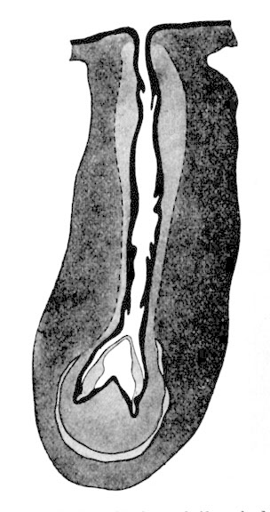 Drawing of dart sac (bursa telae) of Helix pomatia with creating a new love dart.